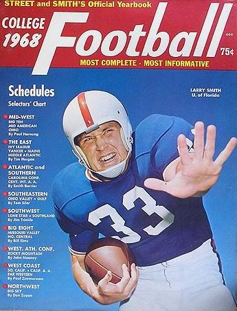 1968 cover of Street and Smith's official yearbook